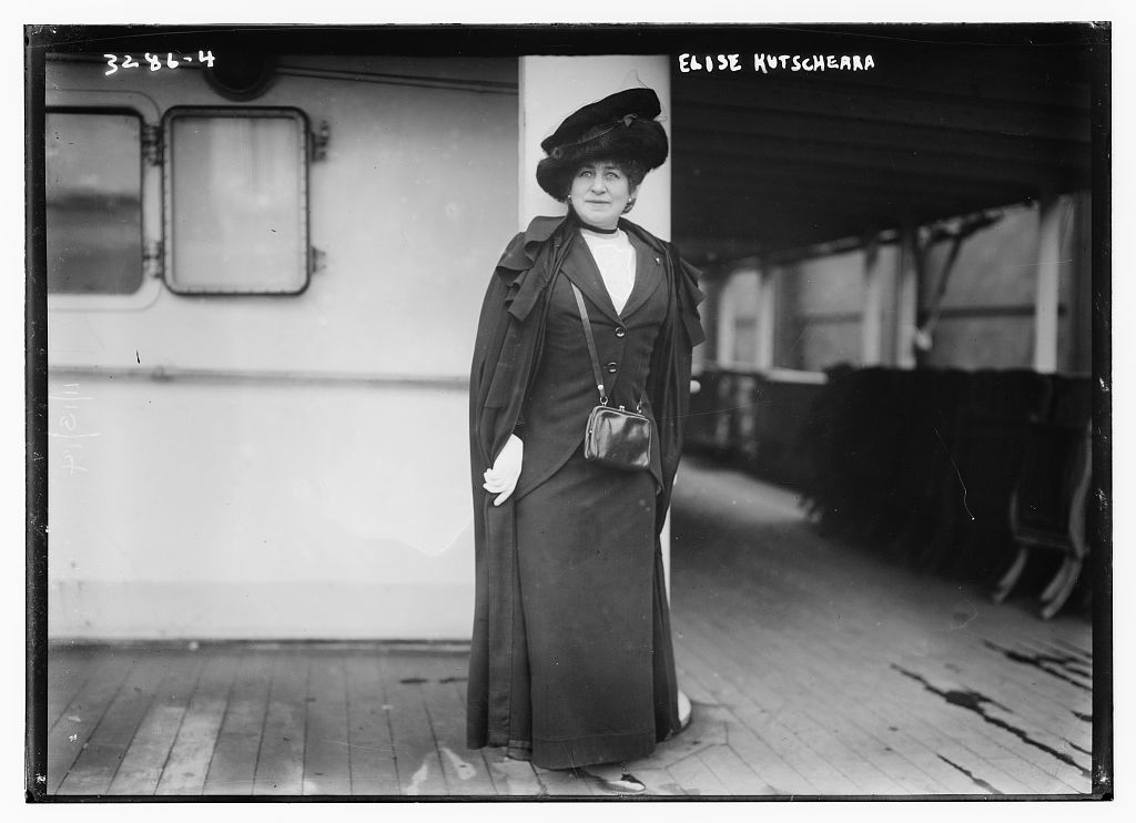 Photograph shows Belgian soprano Elise Kutscherra DeNys (b. 1872).